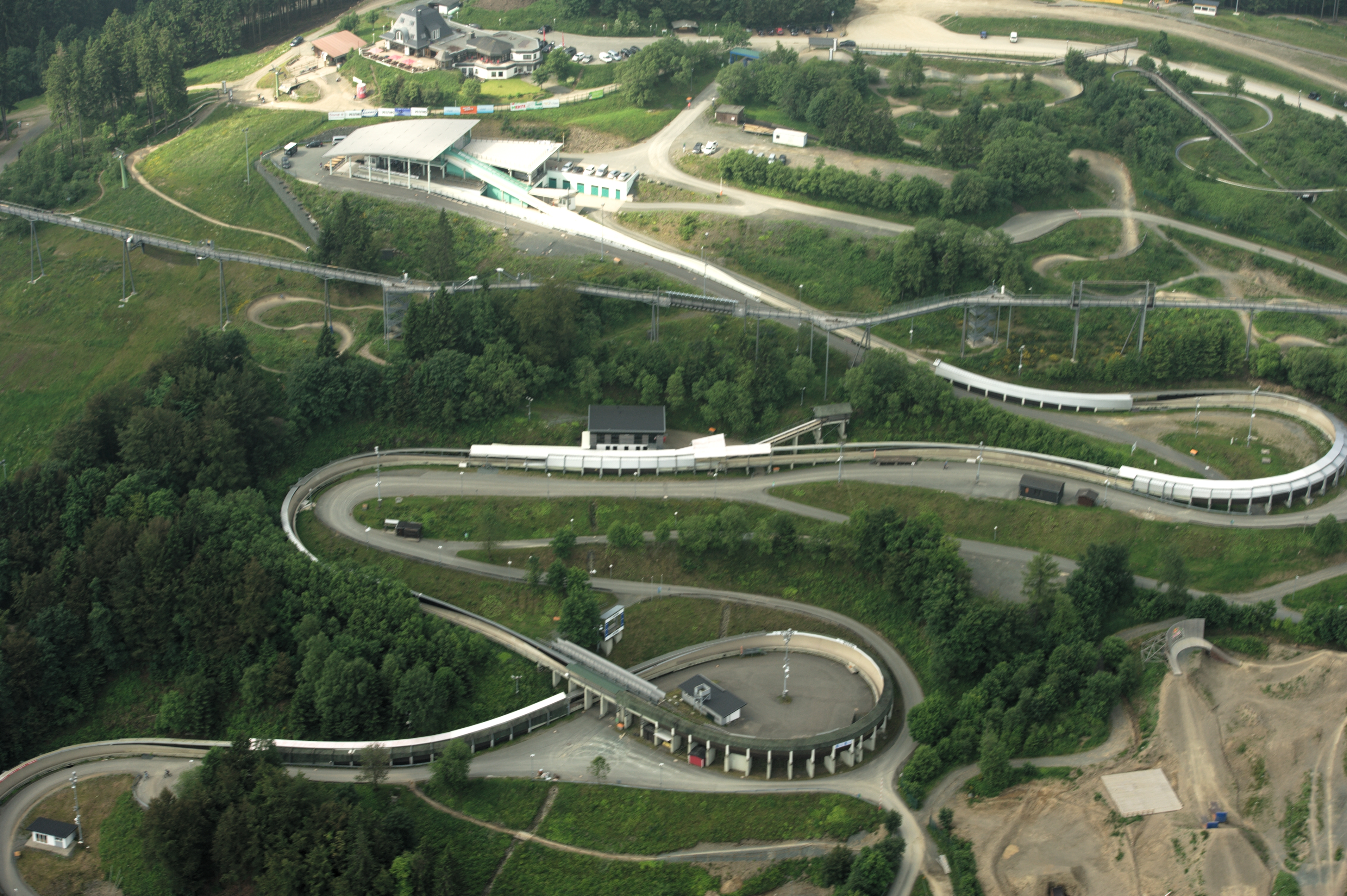 Fotoflug Sauerland-Ost, Oberer Streckenabschnitt der Bobbahn mit Starthaus. The making of this document was supported by the Community-Budget of Wikimedia Germany.